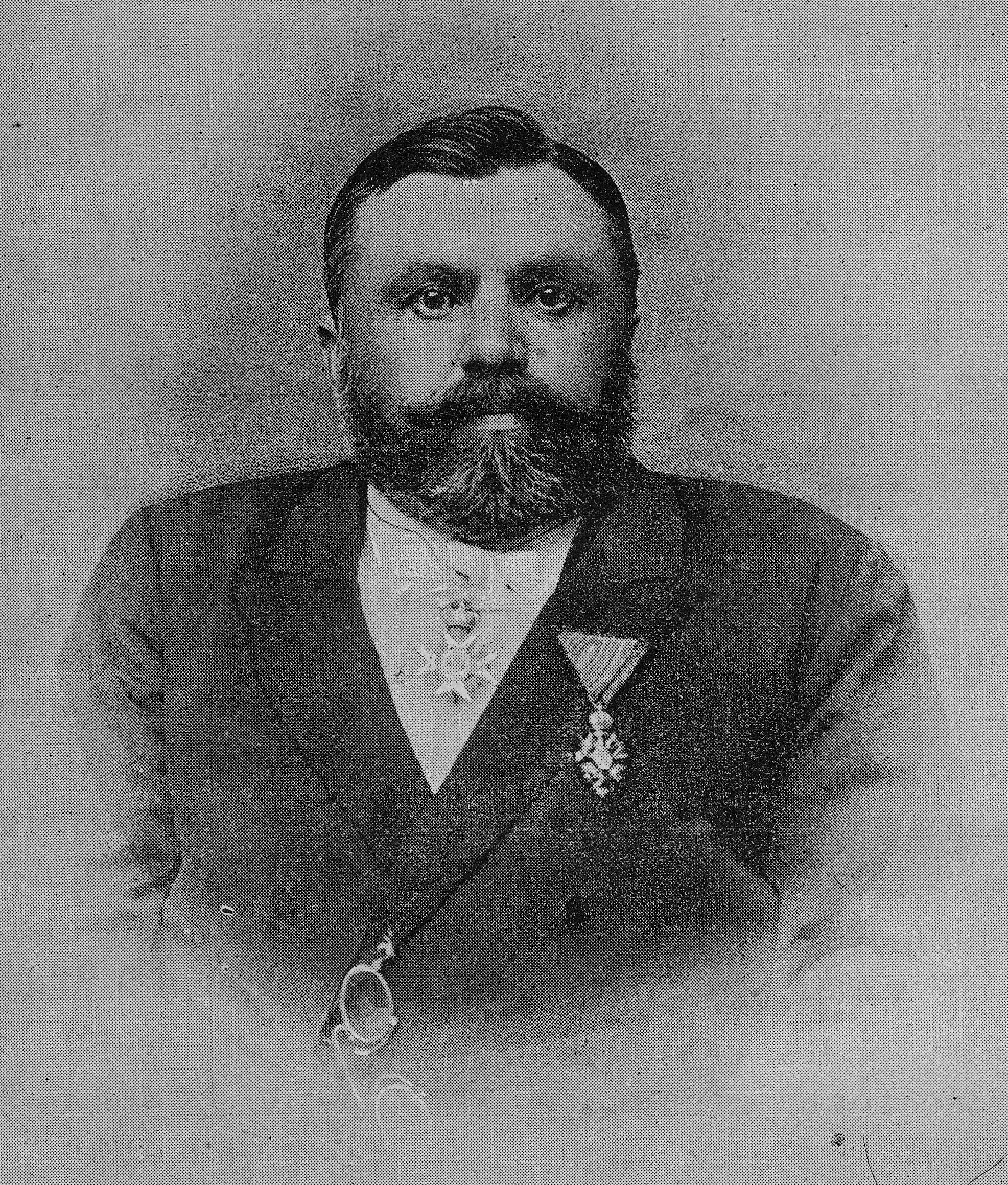 Isidor Ćirić (1844-1893), Patriarchal and National-Church Secretary. Taken from the 1891 edition of the calendar Orao. Srpski (latinica): Isidor Ćirić (1844-1893), patrijaršijski i narodno-crkveni sekretar. Preuzeto iz izdanja kalendara Orao za 1891. godinu.